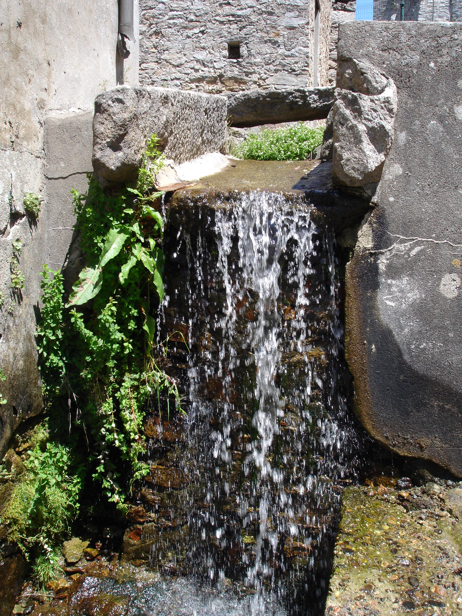 France, Aude, Saissac village, water canal irrigation